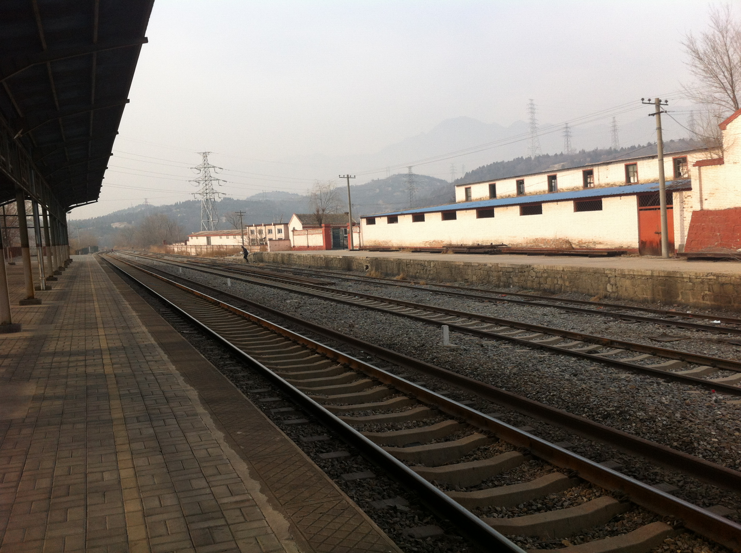 Beijing-Yuanping railway only have one track...